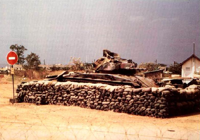 M24 tank serving as a guard post in Vietnam